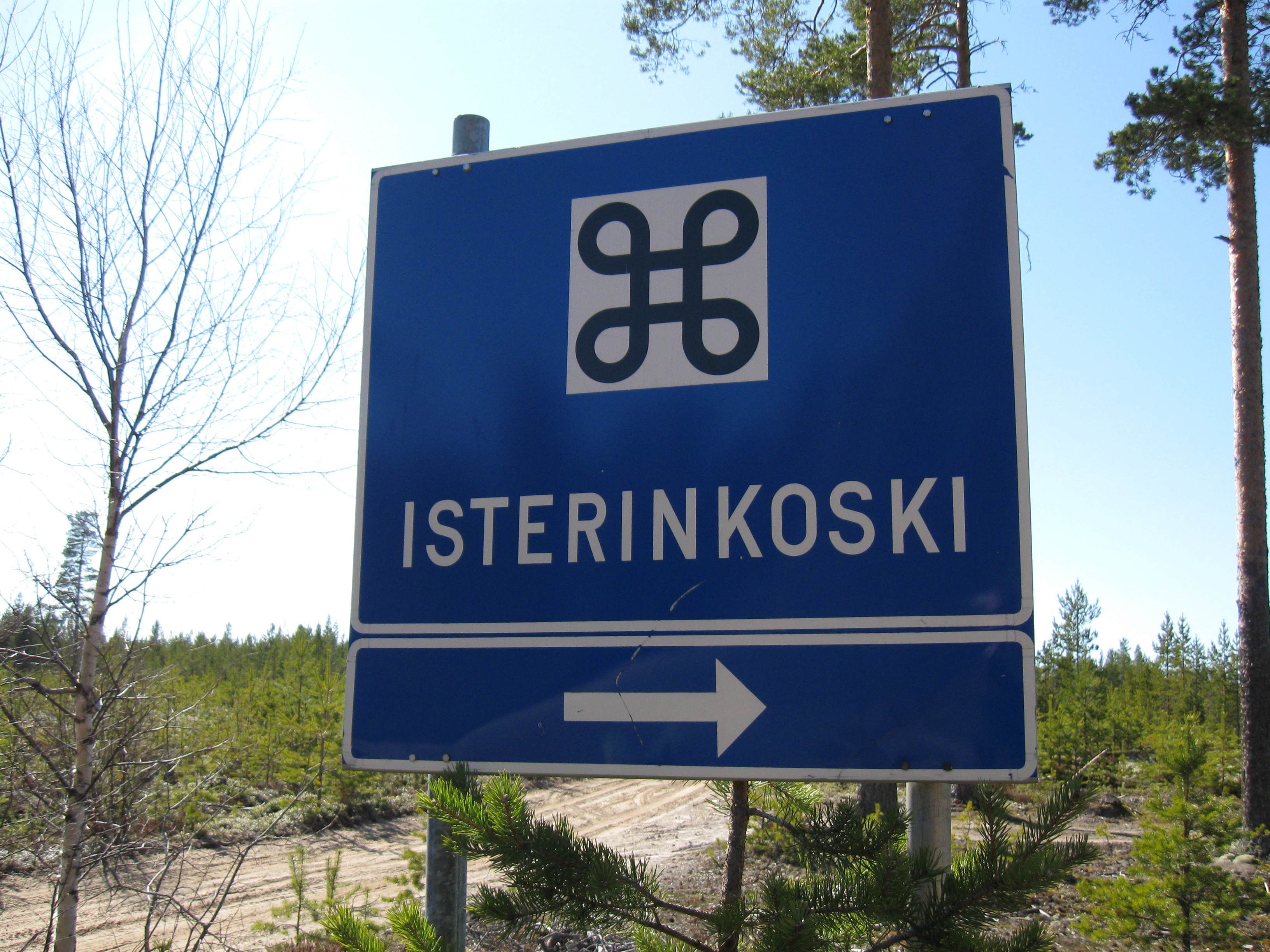 A guide to the Isterinkoski rapids in the Poikajoki river in Muhos, Finland.